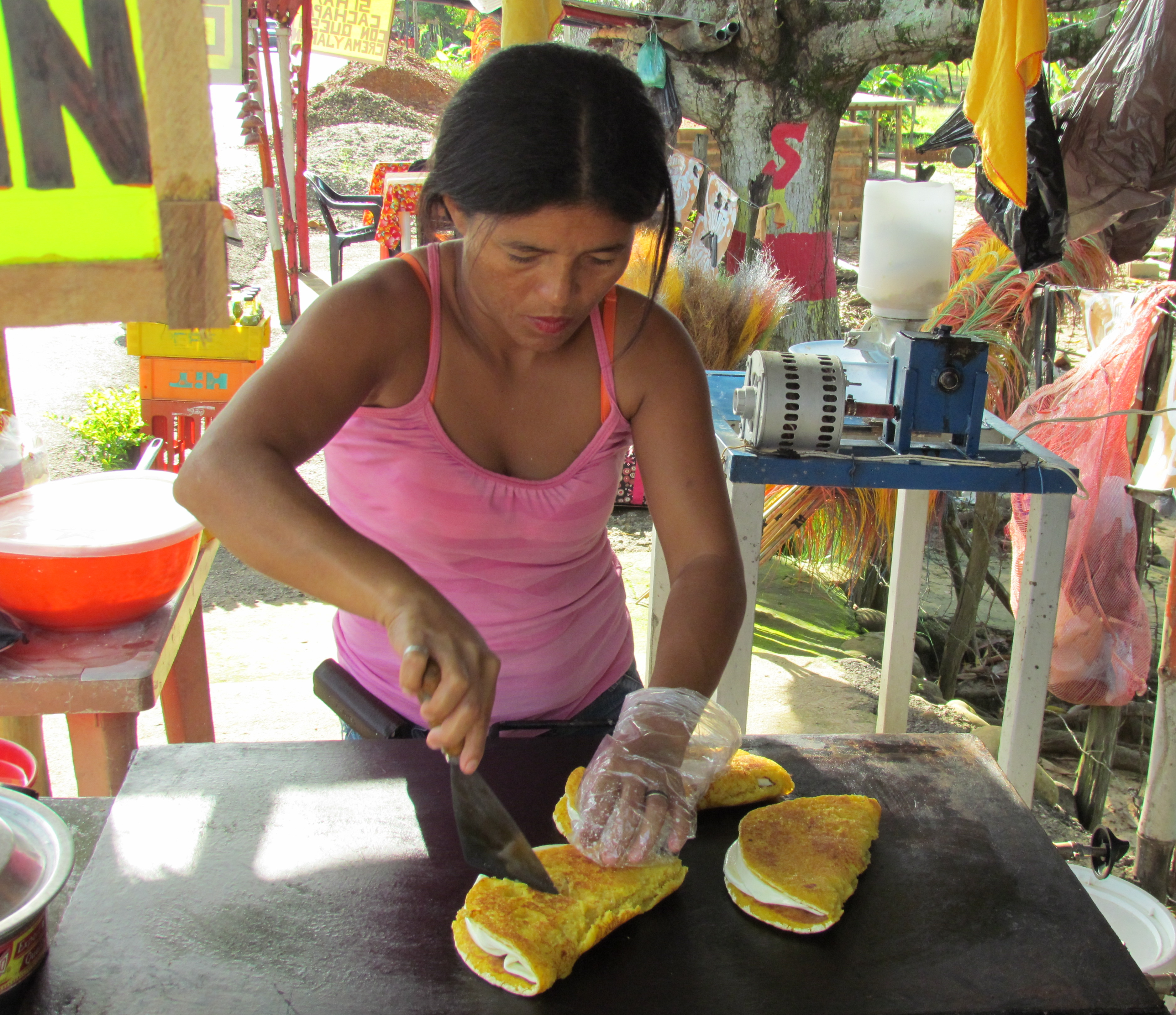 Cooking a cachapa from Zulia, Venezuela.